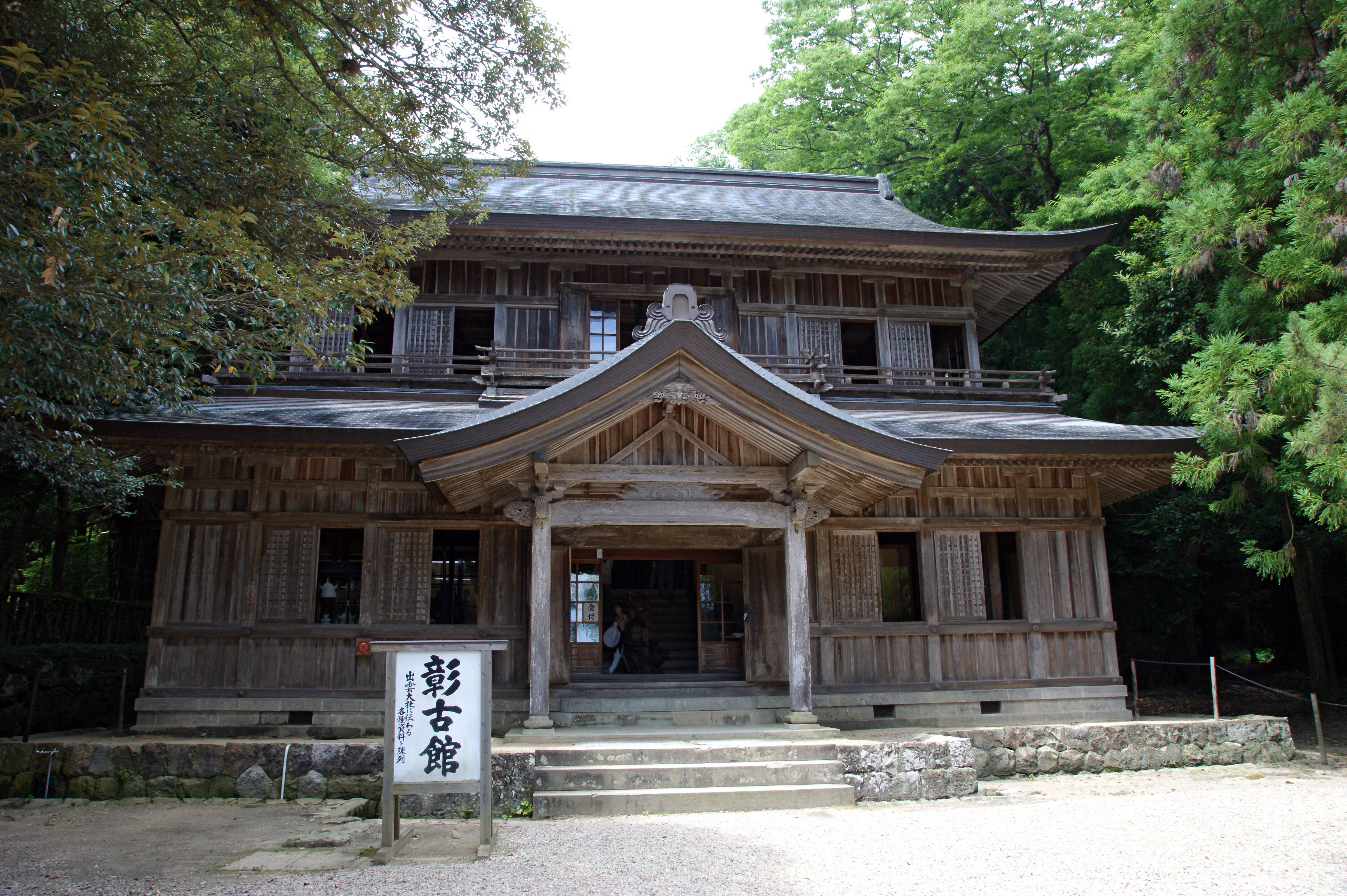 Izumo Taisya, Izumo, Shimane prefecture, Japan